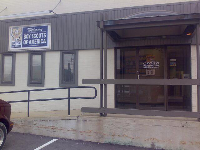 W. D. Boyce Council